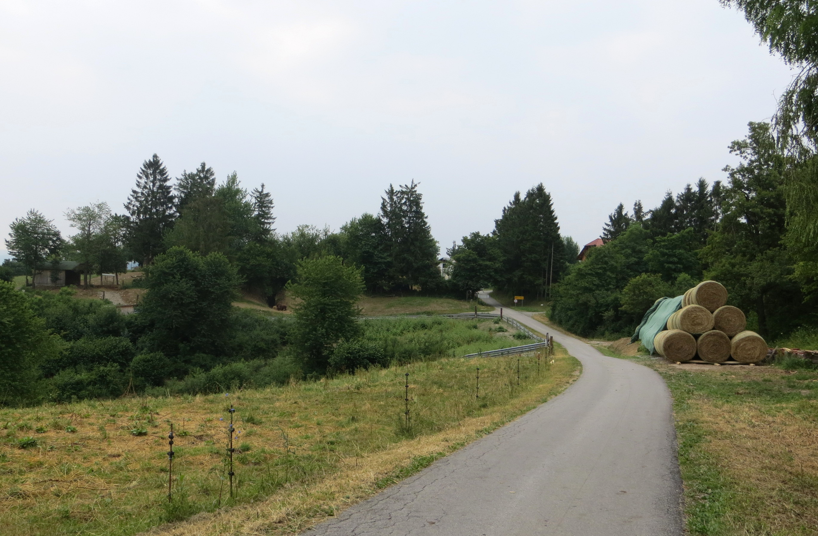 Mala Brda, Municipality of Postojna, Slovenia